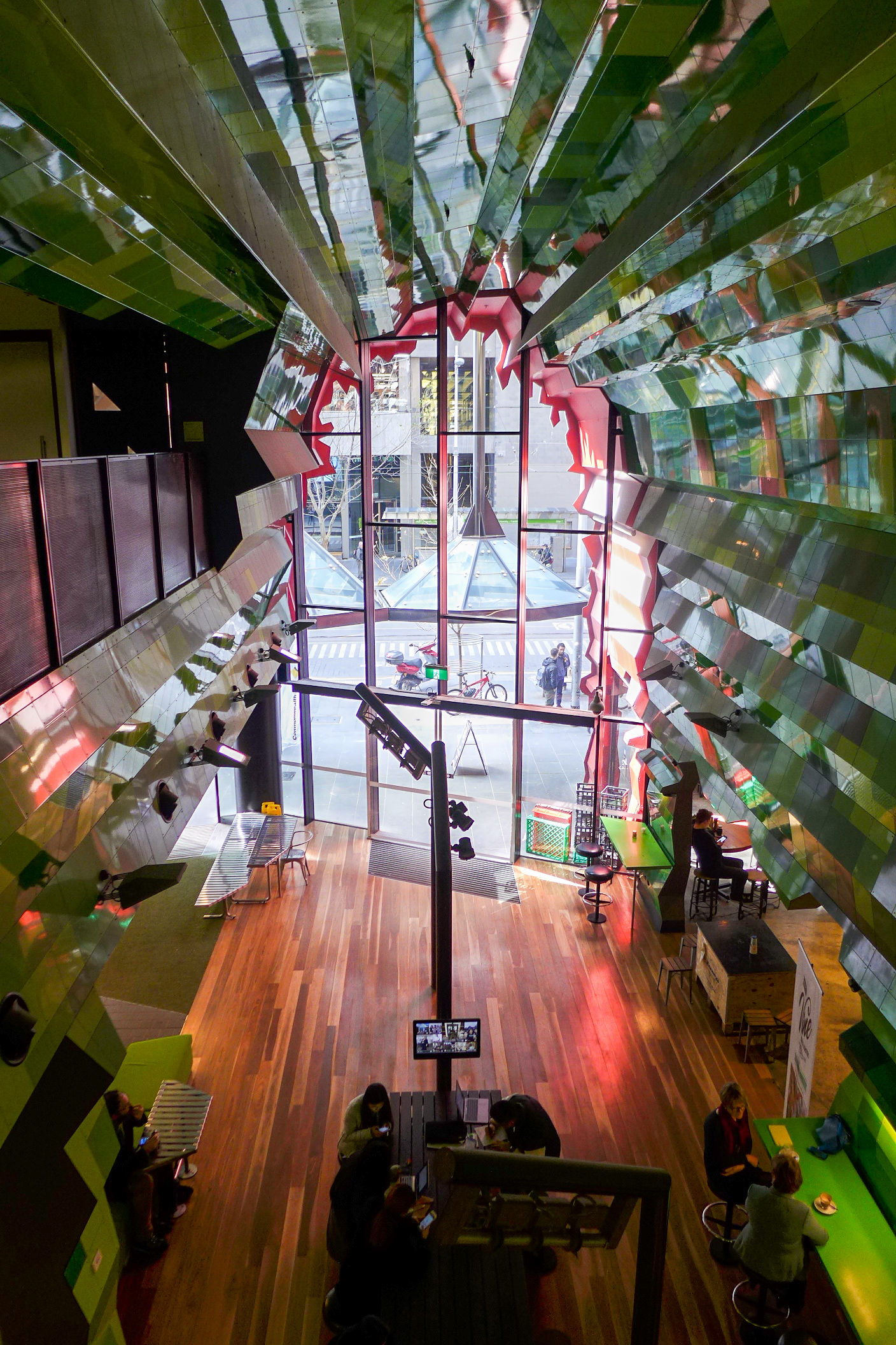 RMIT Swanston Academic Building Entrance